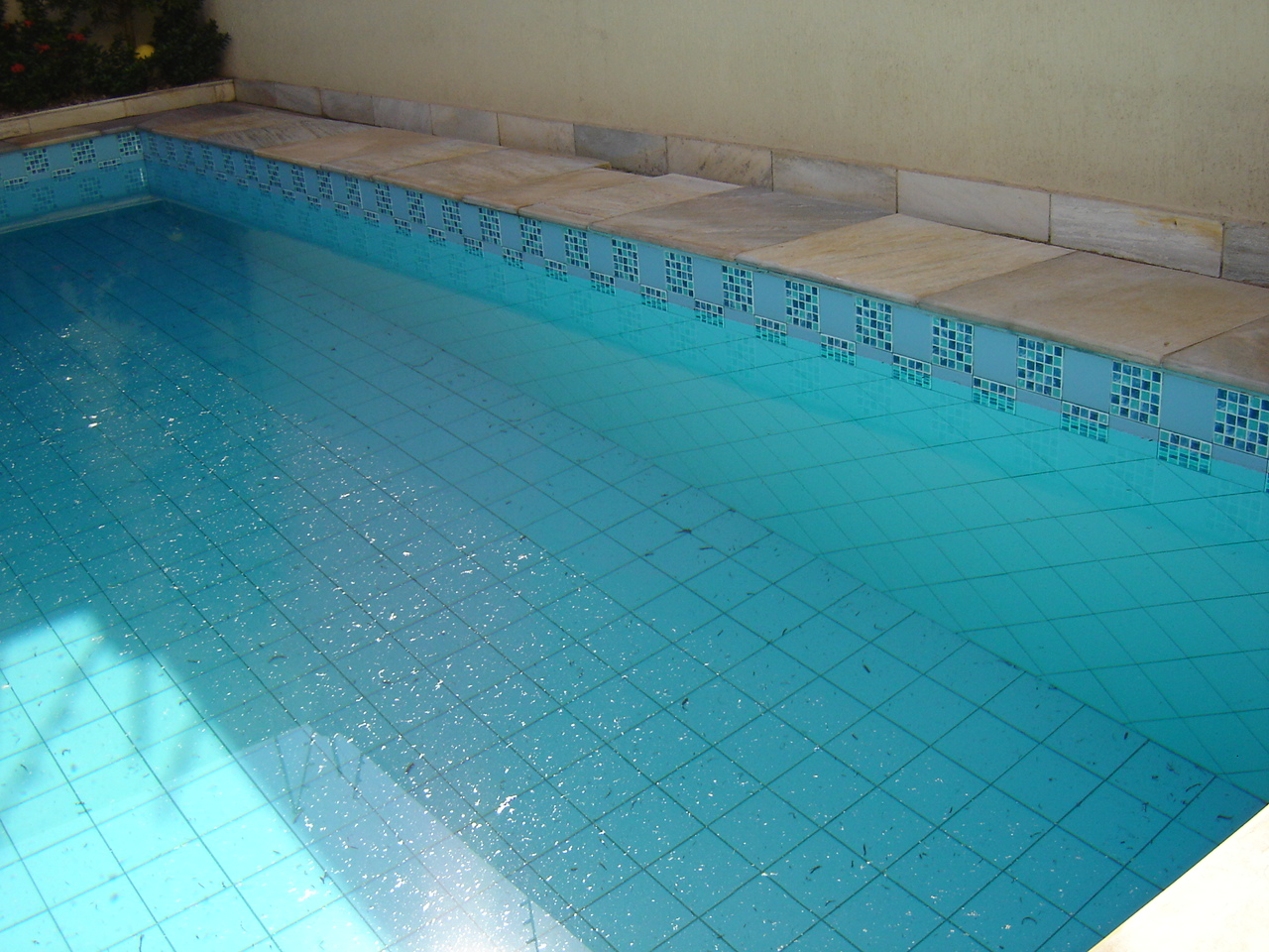 A swimming pool.